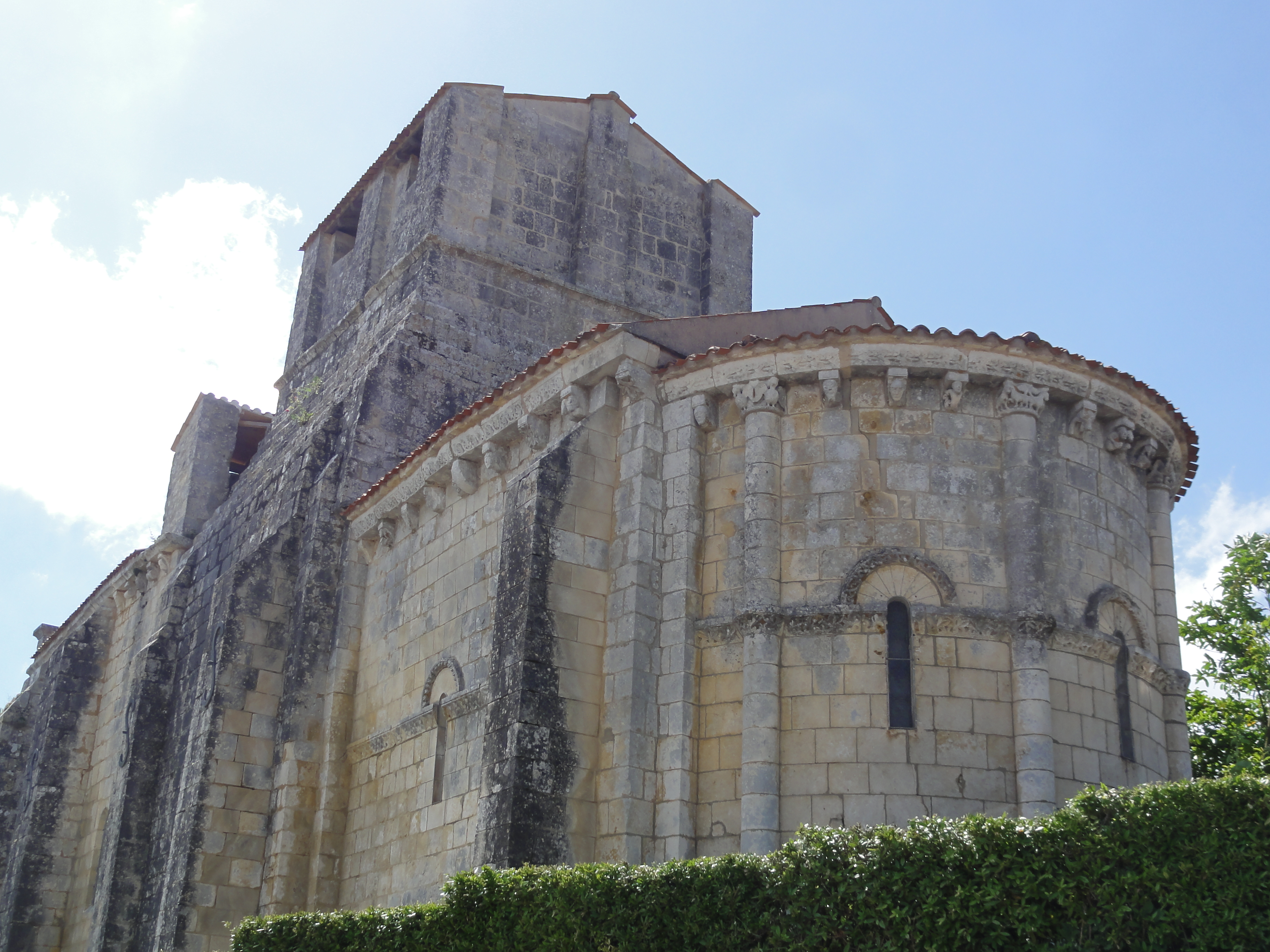 Annepont (Charente-Maritime) Église Saint-André . chevet